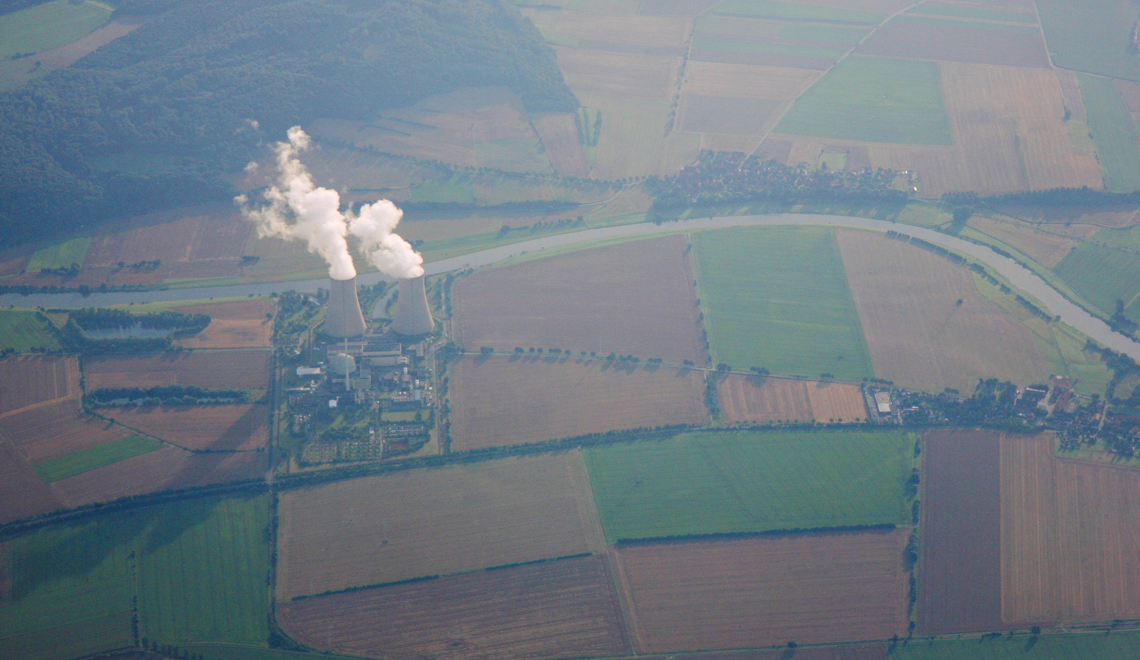 Grohnde nuclear power plant in Germany, taken on an Air Berlin flight from Zürich to Hannover